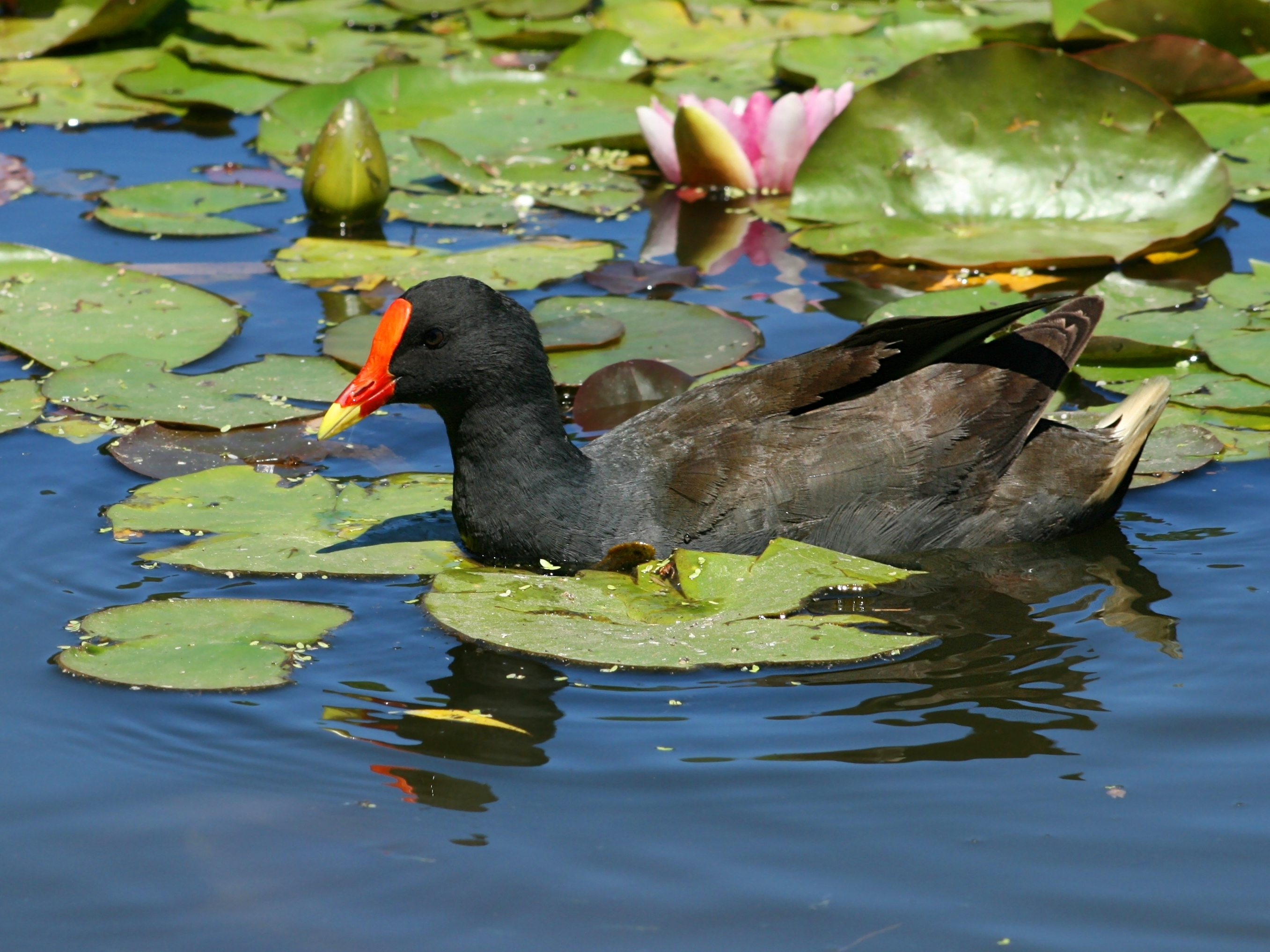 Dusky moorhen (gallinula tenebrosa) with water lilies (nymphaeaceae) in Northam pond in Victoria Park, Sydney. Close view of subject.